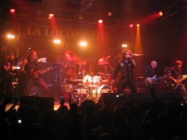 Manigance on stage at La Locomotive (Paris) during the Tour "L'ombre et la lumière" (11.11.2006).